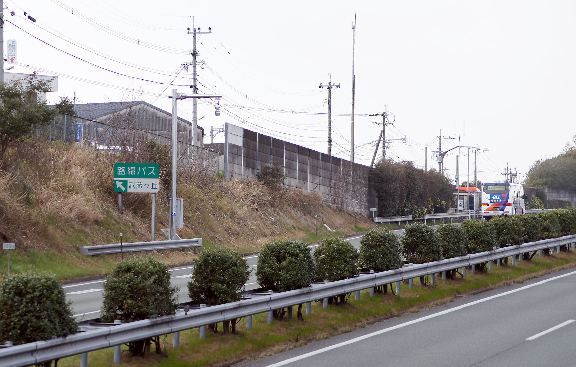 Musashigaoka Bus Stop on the Kyushu Expressway for Fukuoka